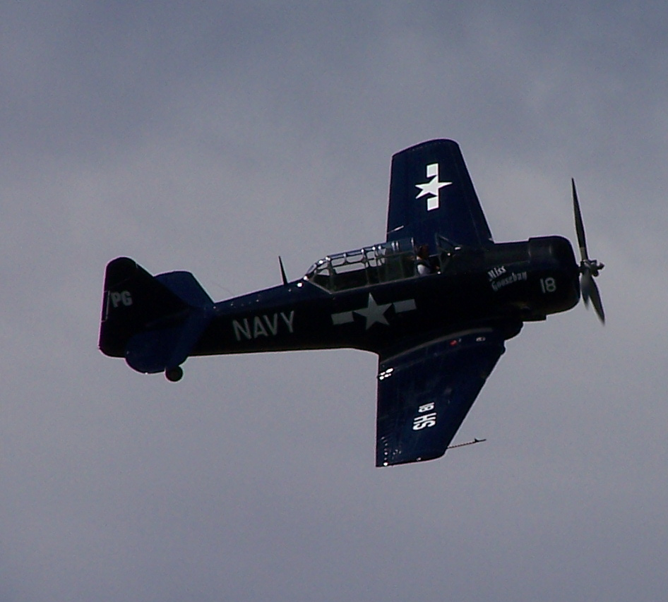 North American T-6G 49-3357 N6593D EDMT 'Miss Goosebay' 20080719